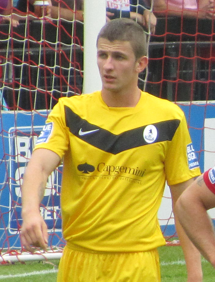 Dan Preston